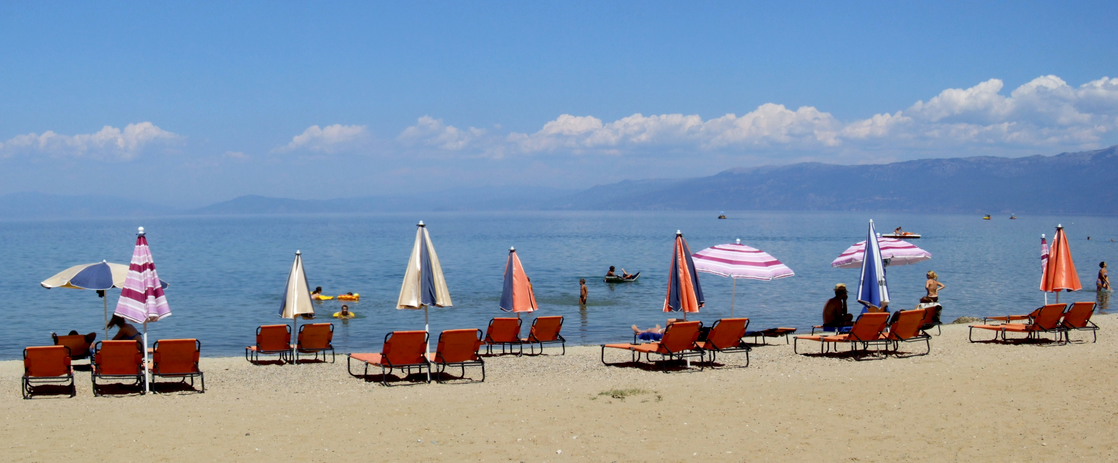 Beach in Pogradec, Albania